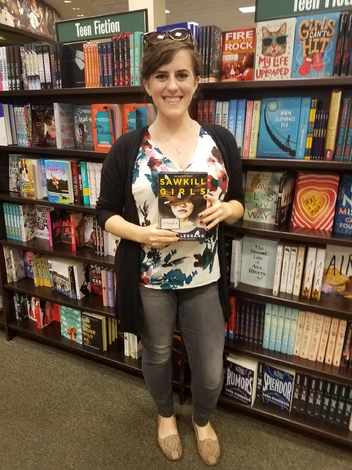 Author Claire Legrand signing stock of her work at Neshaminy Mall Barnes and Noble in Bensalem, PA, October 2018.